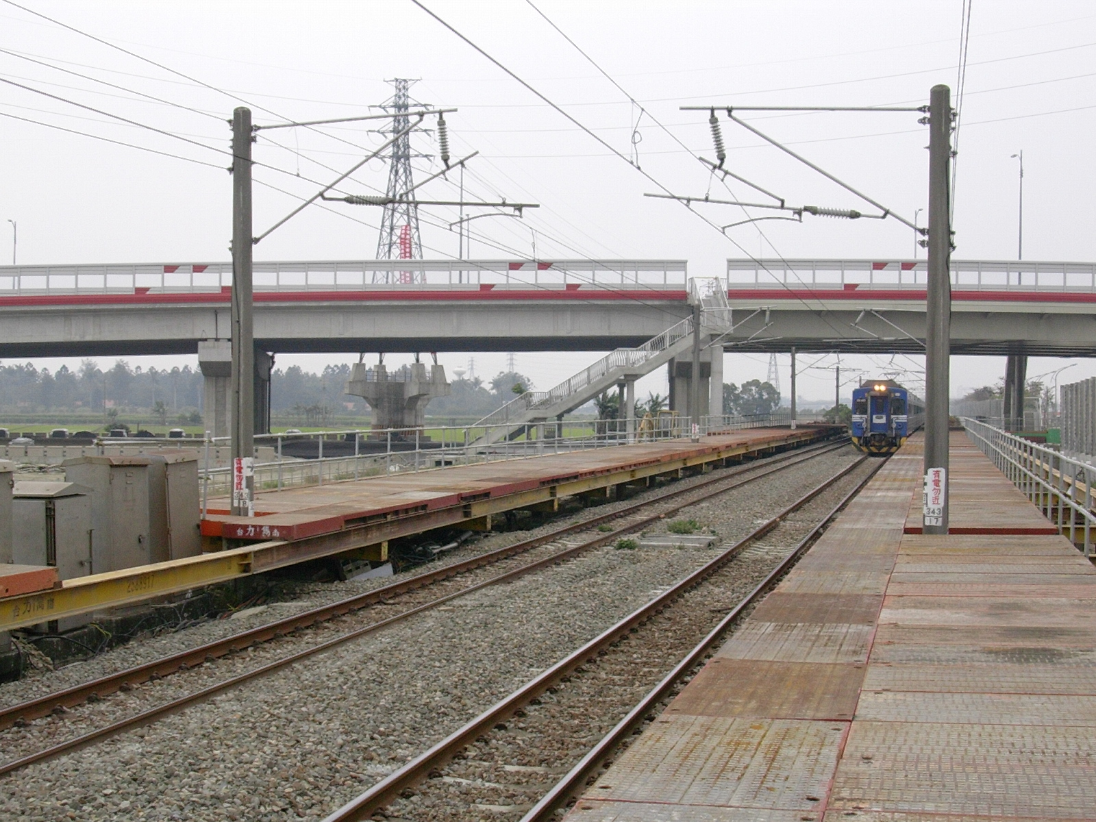 Taiwan Lantern Festival Station of TRA, Taiwan Railway Administration, in Shuanhua, Tainan, Taiwan.